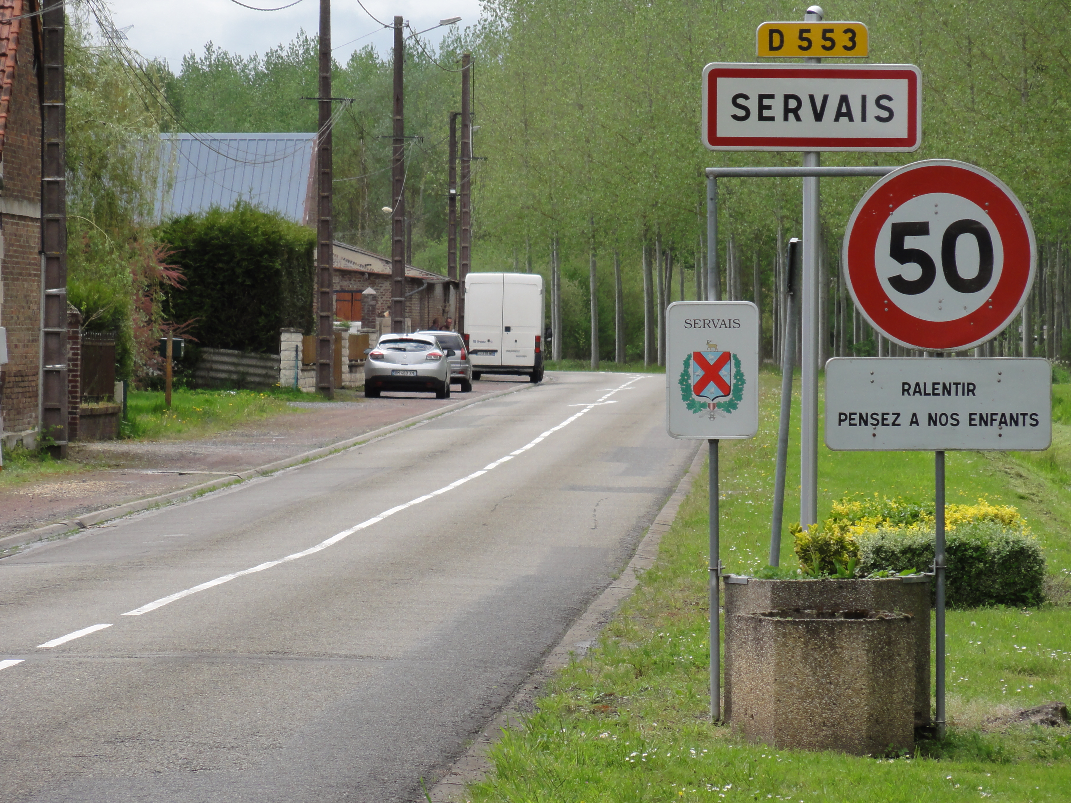 Servais (Aisne) city limit sign